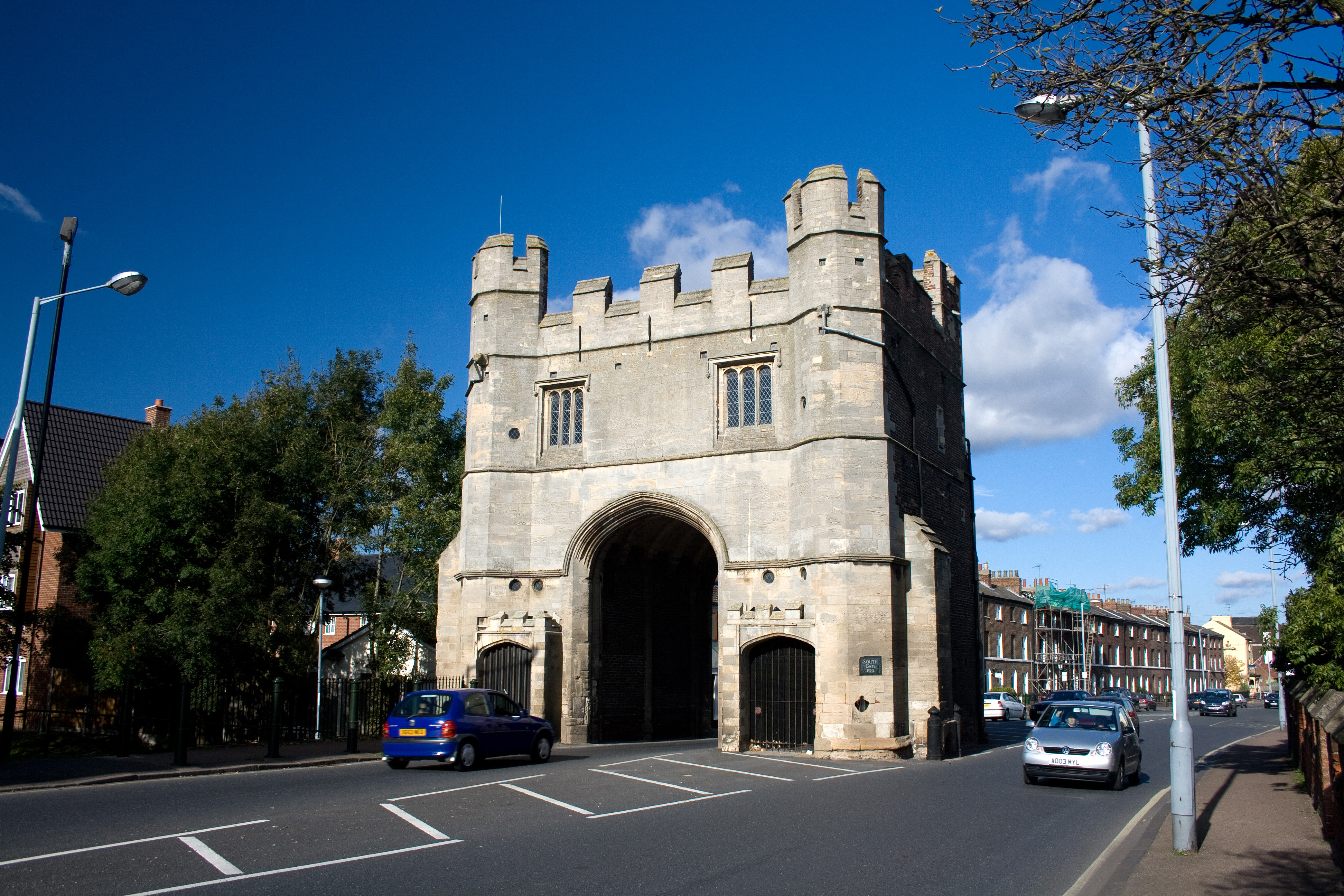 South Gate in King's Lynn, Norfolk, UK